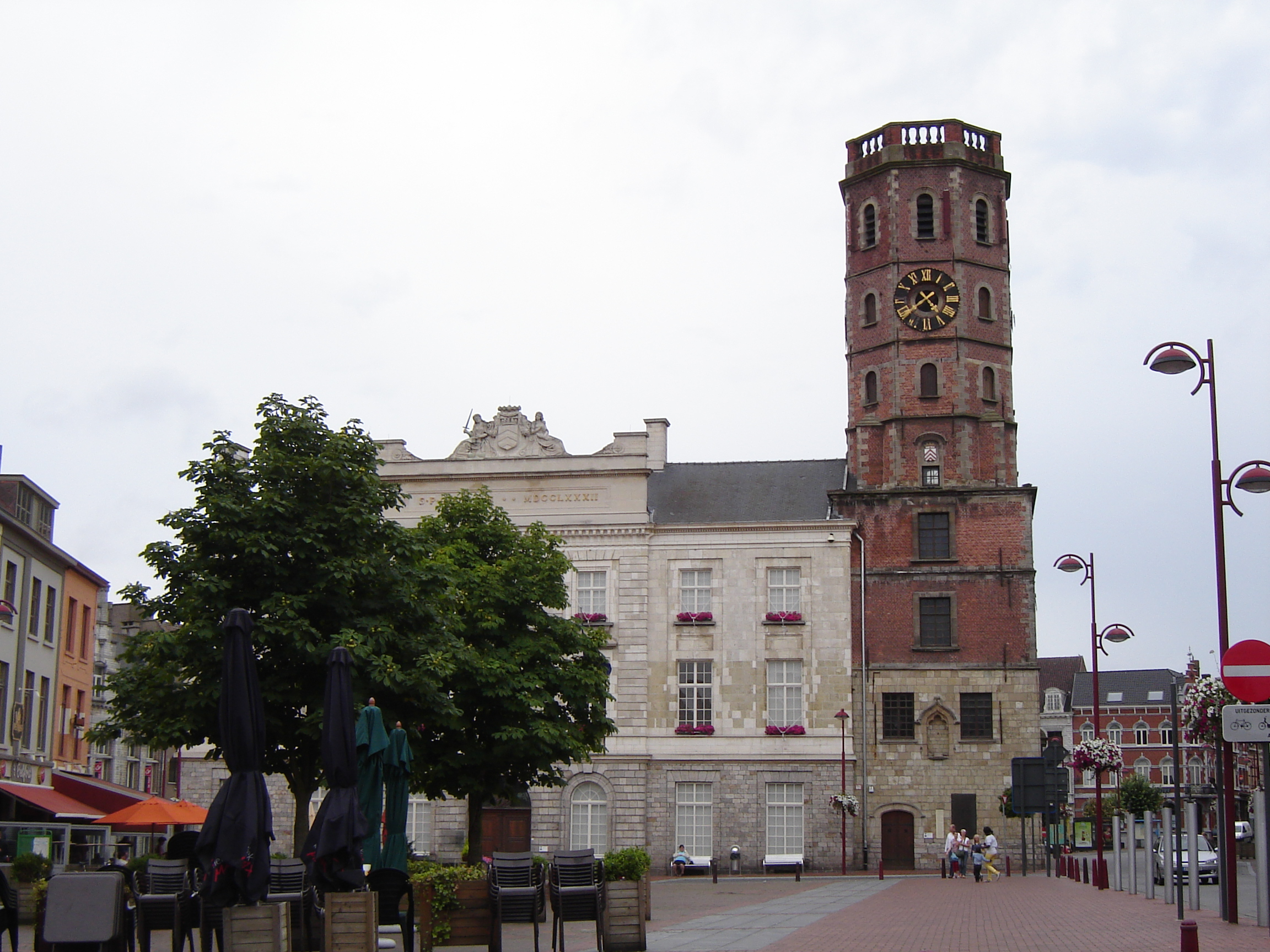 City hall and belfry on the Grote Markt market square of Menen. Menen, West Flanders, Belgium